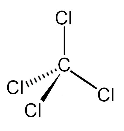 Molecular Structure of Carbon tetrachloride, also called Tetrachloromethane